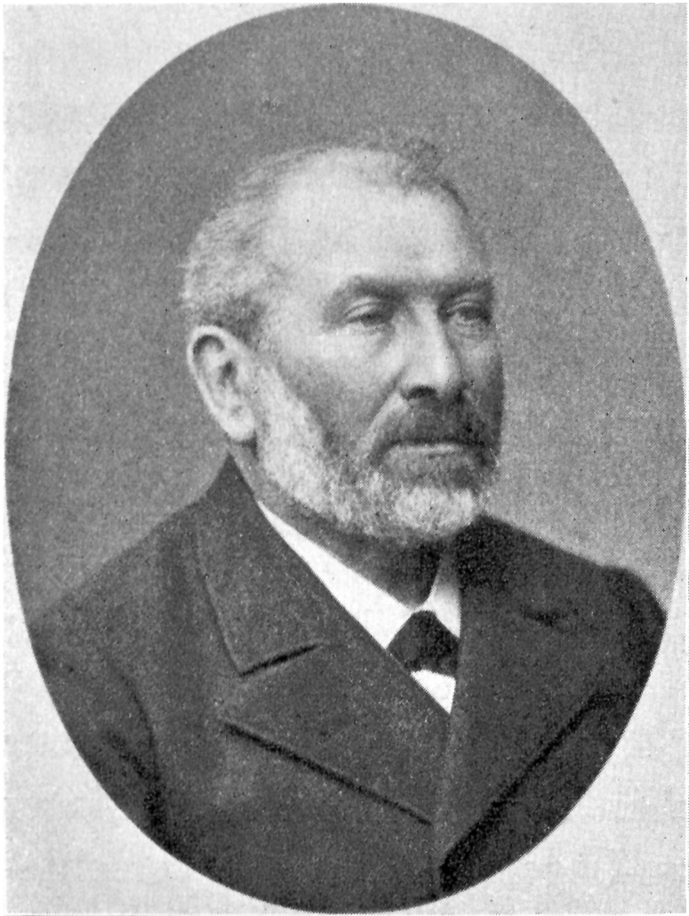 Michael Weber (1827-1885), Entrepreneur of Brewery Wädenswil, Canton Zürich, Switzerland